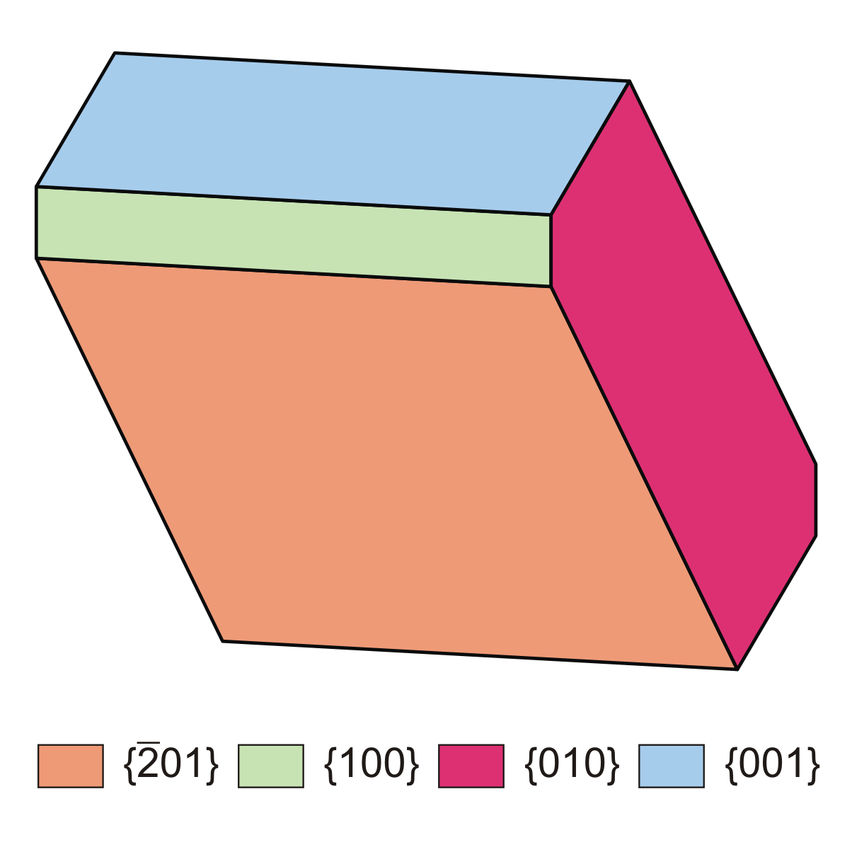 Drawing of a brendelite crystal; reference: W. Krause et al. (1998), Mineralogy & Petrology vol. 63, page 266